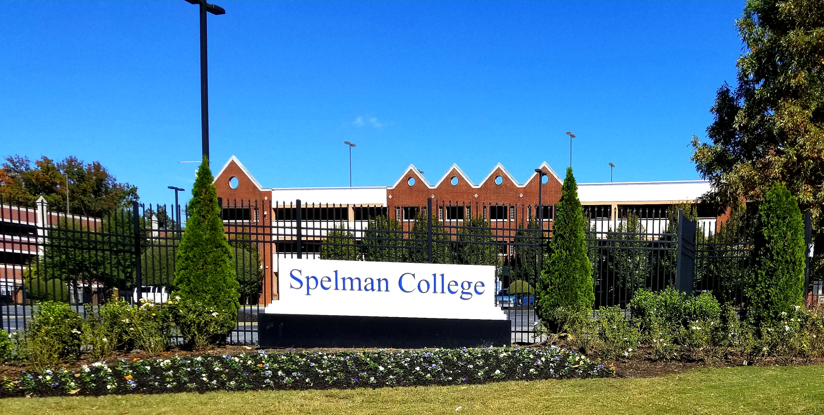 Spelman College sign